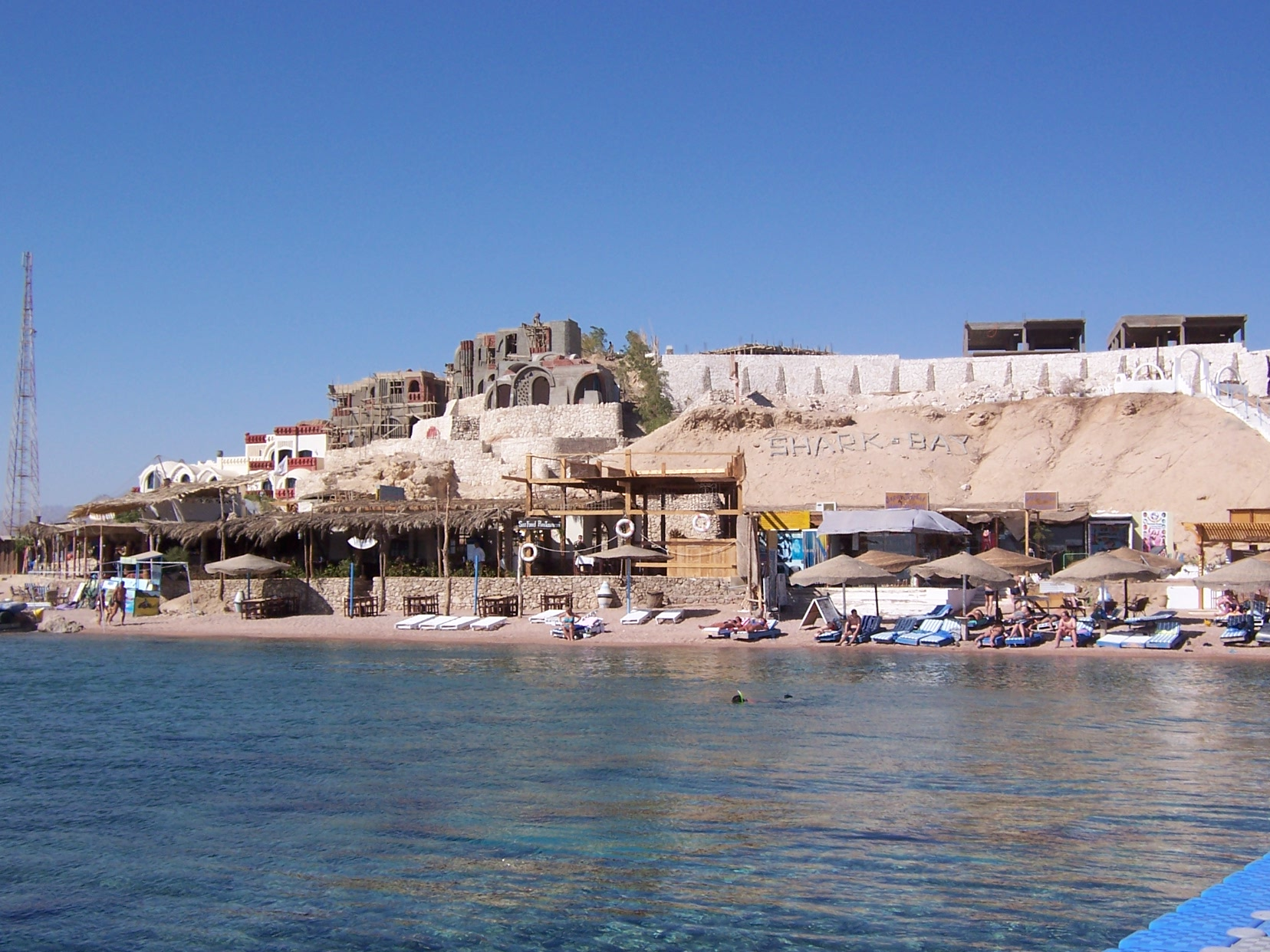 Photos from winter Egypt trip 2007 Jan-Feb